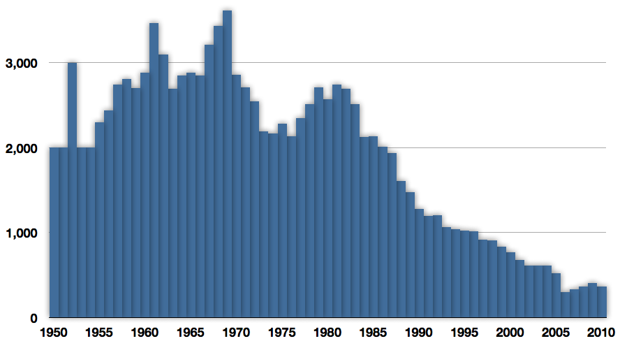 Fisheries recorded capture of wild Japanese eel (Anguilla japonica) from 1950 to 2010. Data source FAO fisheries